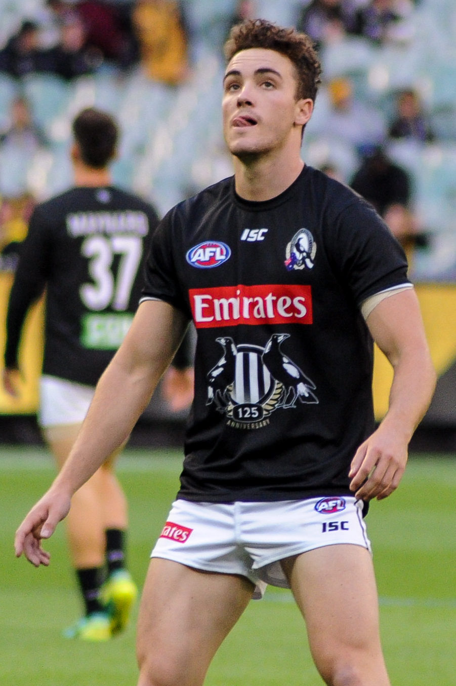 Jackson Ramsay warming up prior to the AFL round two match between Richmond and Collingwood on 30 March 2017 at the Melbourne Cricket Ground in Melbourne, Victoria.